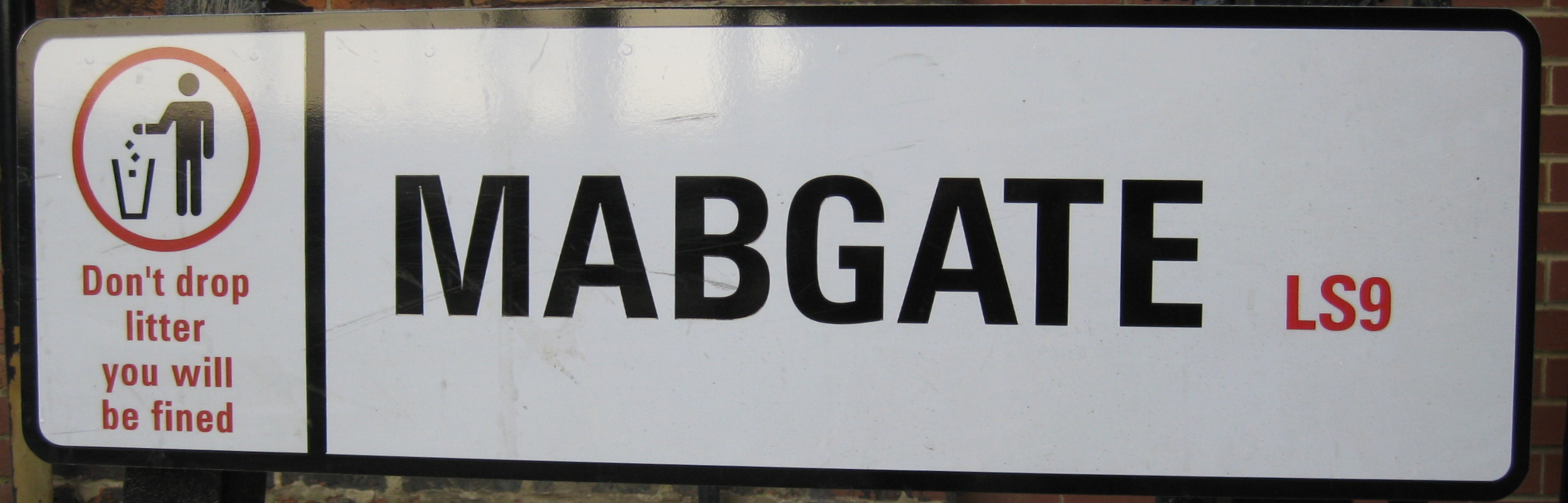 Sign on the north end of the street known as Mabgate, Leeds LS9